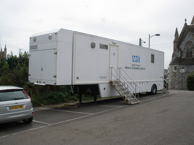 NHS Breast Screening unit. South Devon Breast Screening Service.